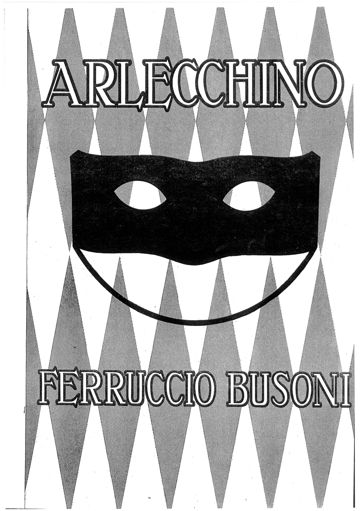 Cover to the score of Ferruccio Busoni's opera Arlecchino.